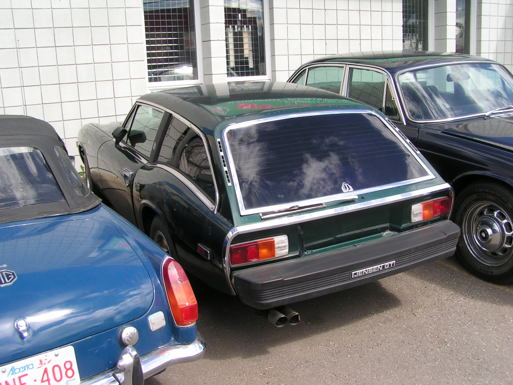 Jensen GT spotted by in 2005. Quite rare - one of 511 made.